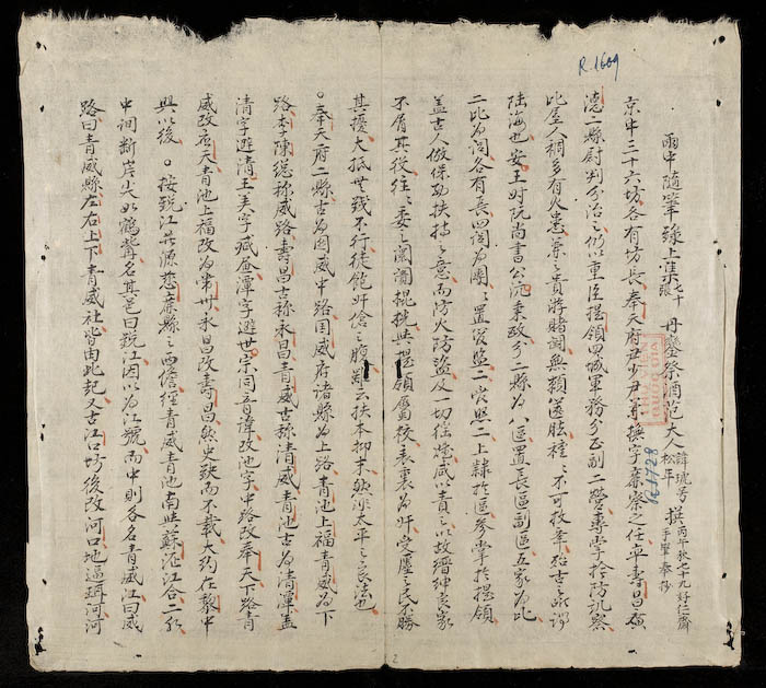 A page of "Vu Trung Tuy But" (雨中隨筆)